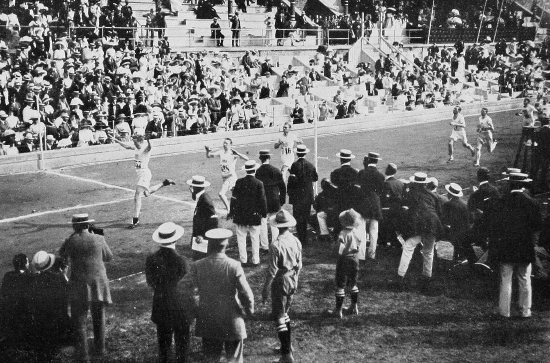 The finish of the final of the men's 3000 metre team race at the 1912 Summer Olympics. Tell Berna (USA), Thorild Olsson (SWE), Norman Taber (USA)